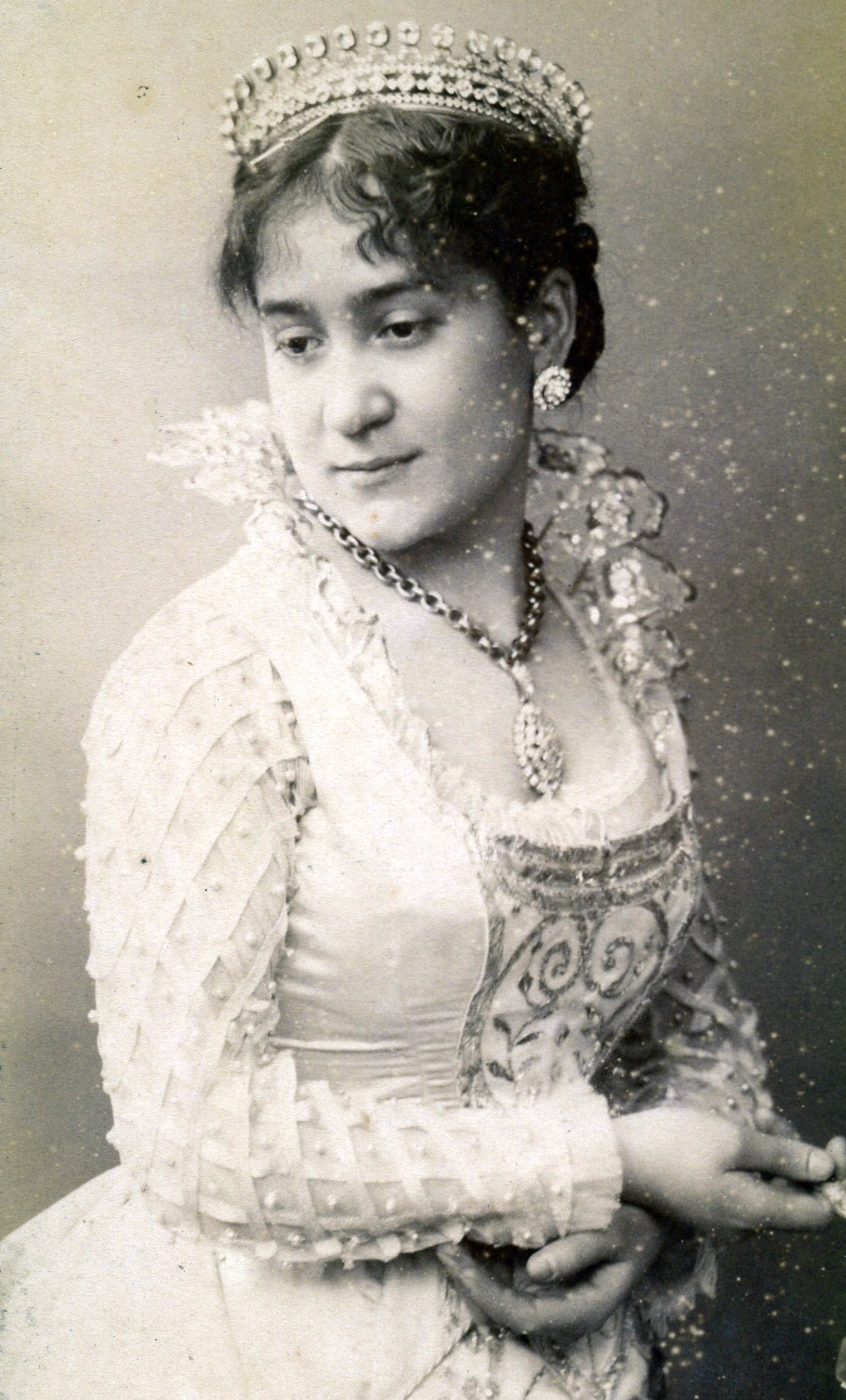 Portrait of of French opera singer Marie Garcin in stage costume